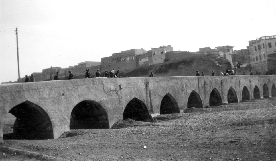 A photograph of Ben Zion Israeli in Kirkuk Iraq